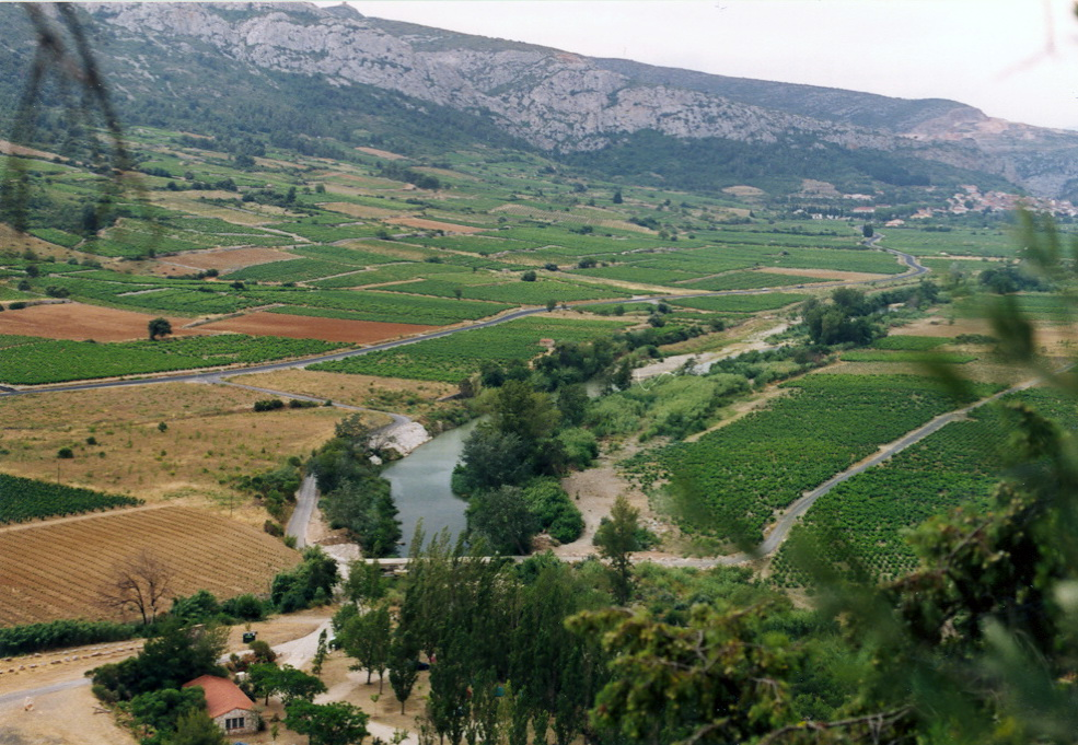 Arago-cave, near Tautavel (Perpignan-region), France: view from the entrance across the Verdouble valley